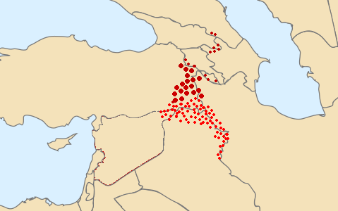 Yazidis